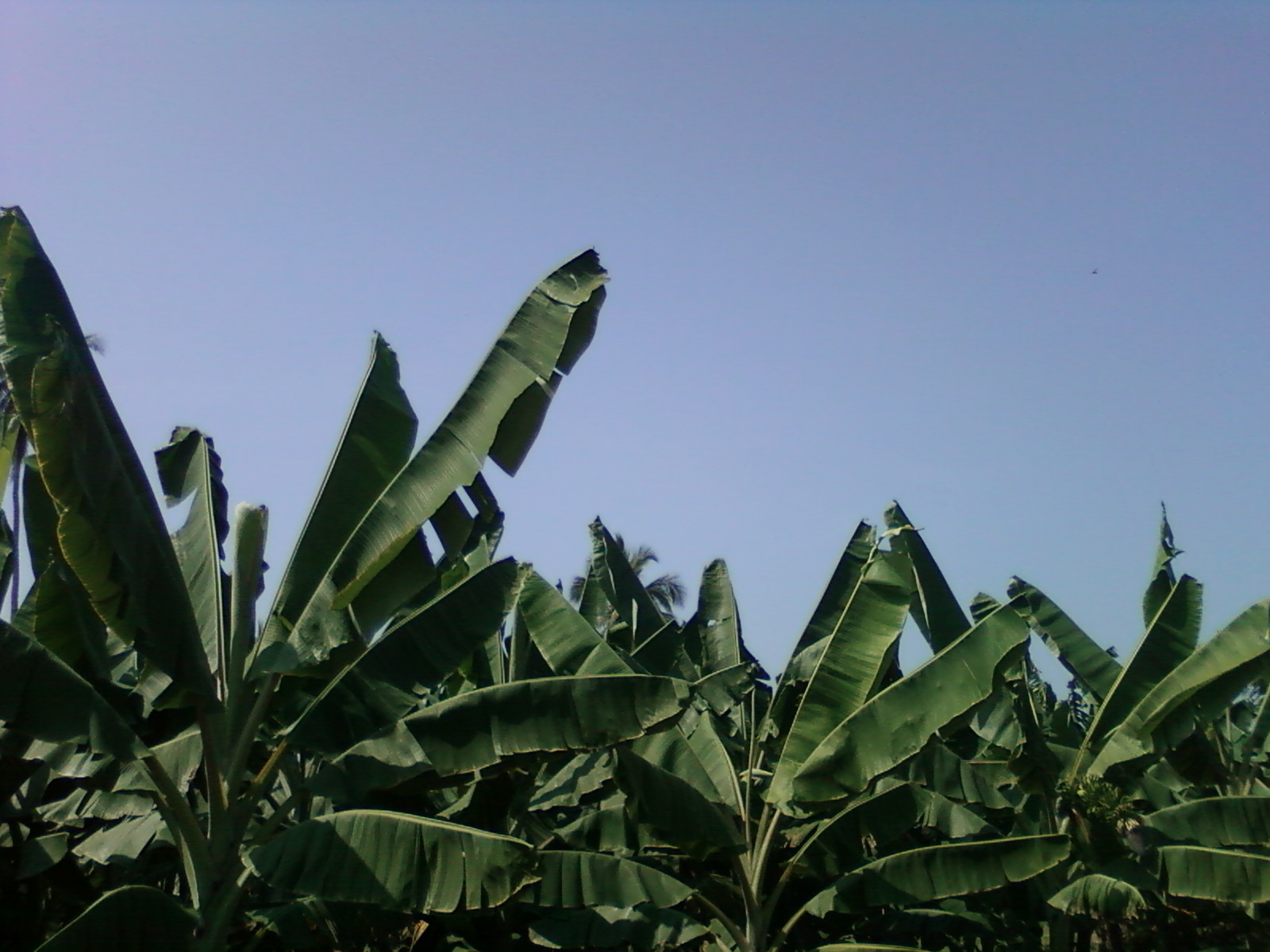 Banana plantations at Ryali village in East Godavari district, Andhra Pradesh